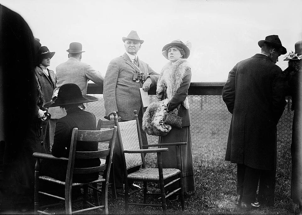 Bain News Service, publisher. Paul D. Cravath & Vera circa 1913 [1912?] 1 negative : glass ; 5 x 7 in. or smaller. Notes: Title from unverified data provided by the Bain News Service on the negatives or caption cards. Photo shows New York attorney Paul Drennan Cravath (1861-1940) and his daugher Vera Agnes Huntington Cravath (b.1896), probably at a horse show, possibly the Saddle Horse Show on Belmont, Long Island, reported in the New York Times on May 30, 1912. (Source: Flickr Commons project, 2008) Forms part of: George Grantham Bain Collection (Library of Congress). Format: Glass negatives. Repository: Library of Congress, Prints and Photographs Division, Washington, D.C. 20540 USA, General information about the Bain Collection is available at Persistent URL: Call Number: LC-B2- 2456-2